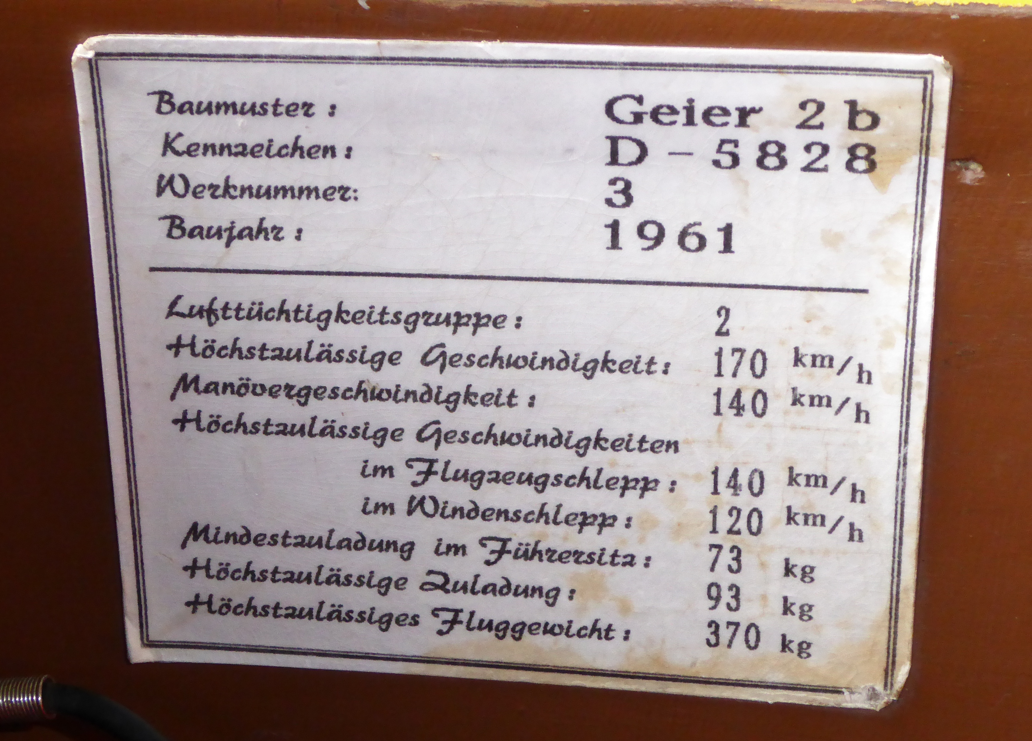 Type plate of the sailplane Geier II B